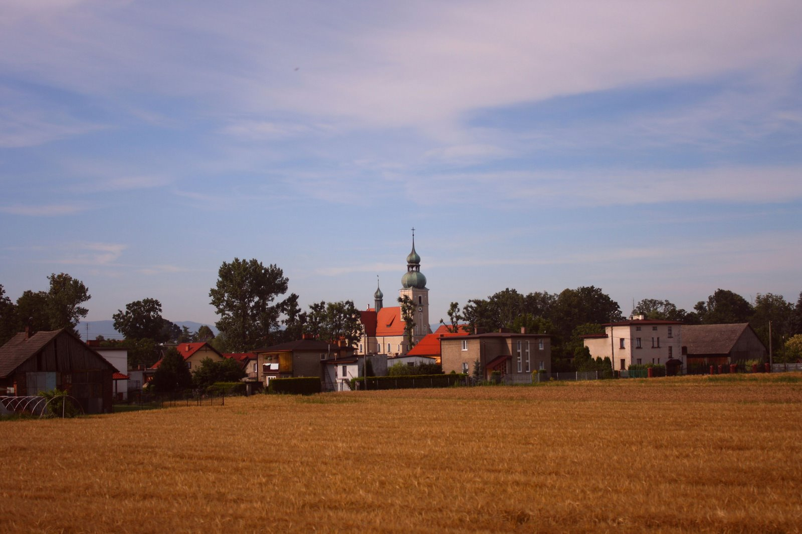 Goczałkowice_Zdrój (Silesia Voivodeship), general view